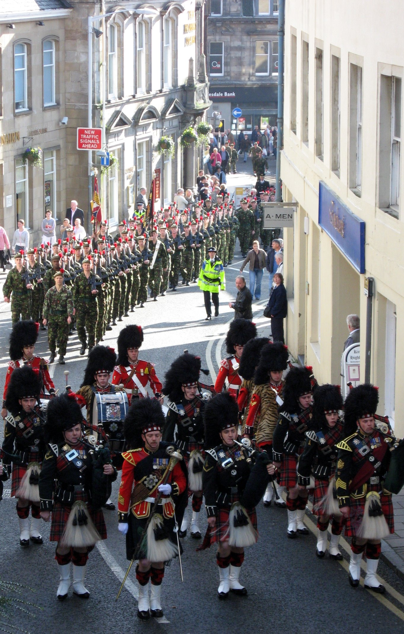 3SCOTS (The Black Watch, 3rd Battalion, The Royal Regiment of Scotland) receiving the Freedom of Fife on 21st October, 2006.